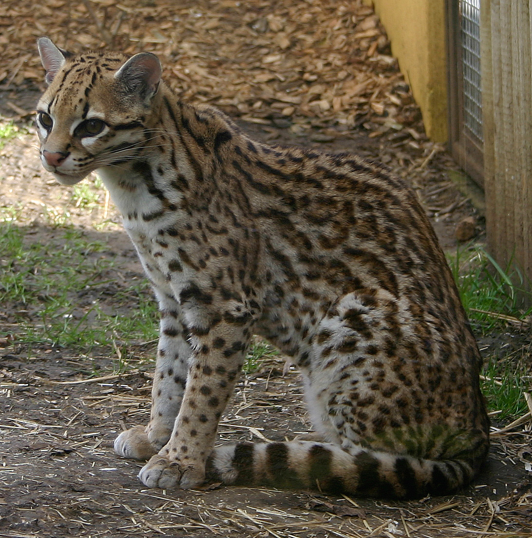 An ocelot in Marwell Zoo.